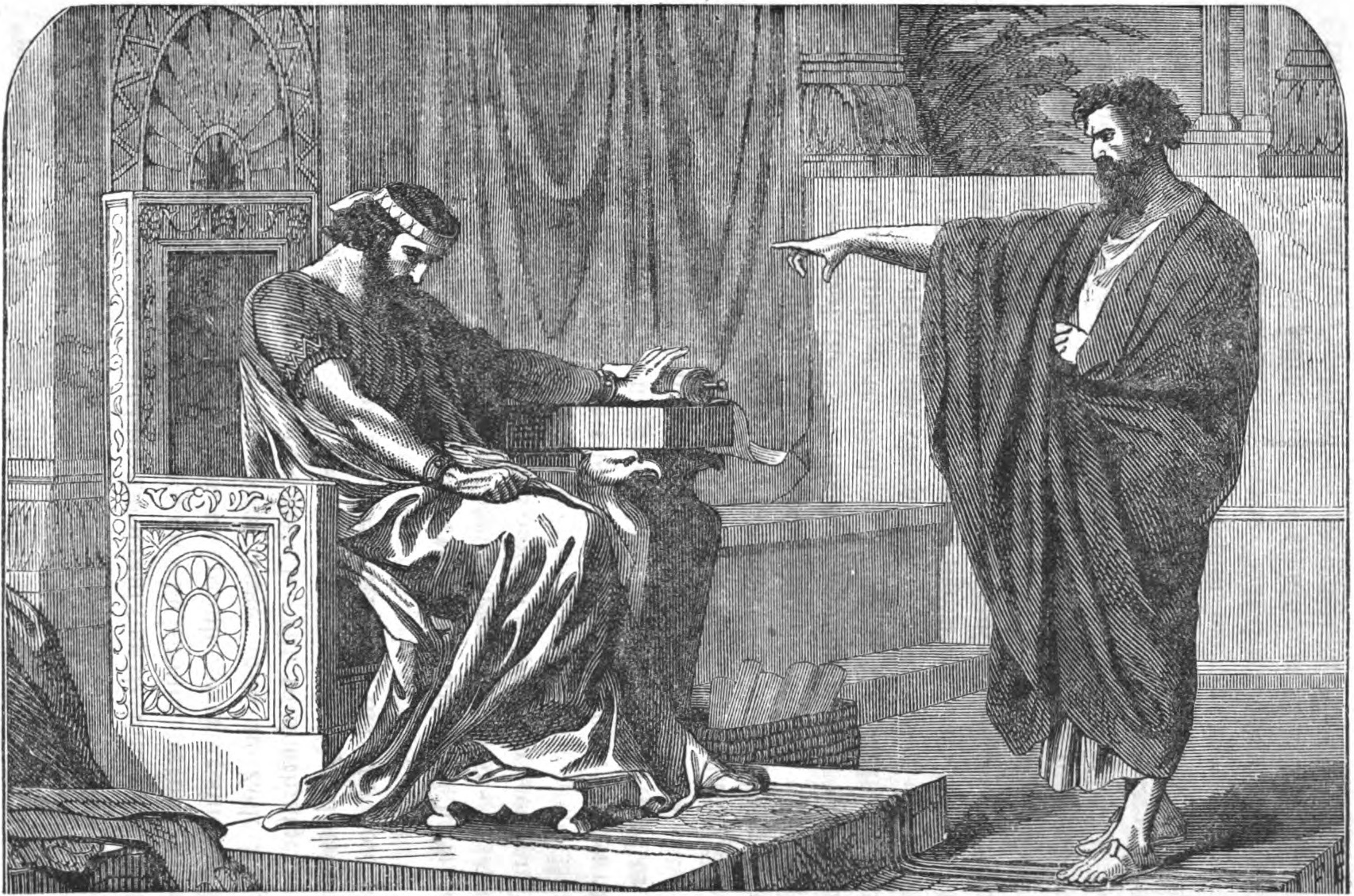 Jeremiah tells the king that Jerusalem shall be taken.